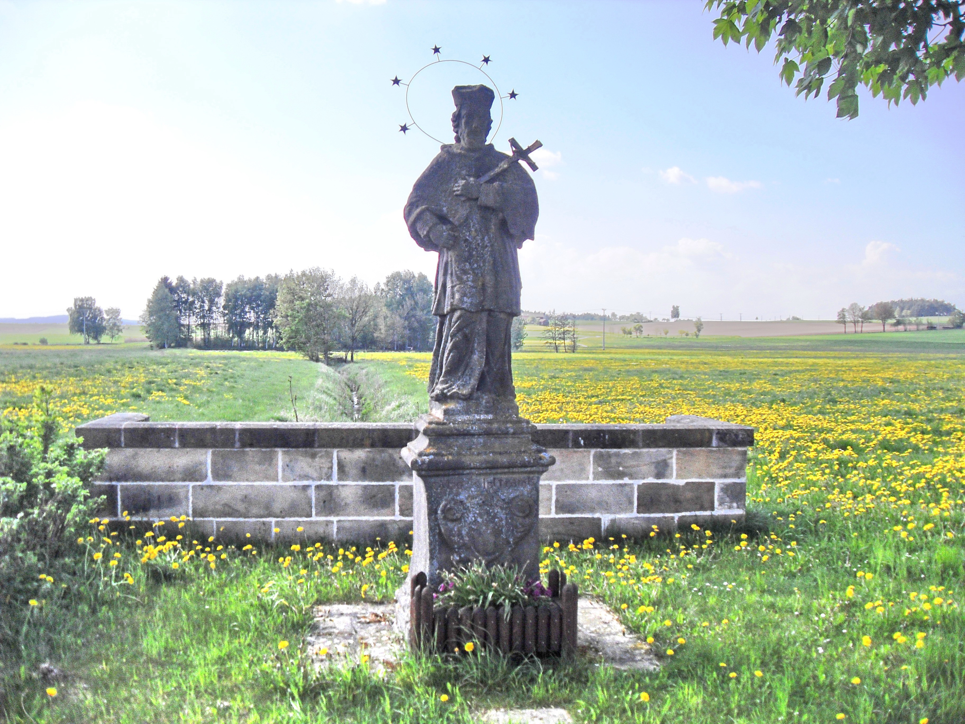 A religous statue (Saint John of Nepomuk) along a walking path in Speinshart, Germany